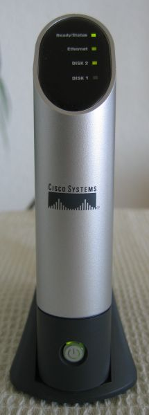 Linksys NSLU2 (front view)